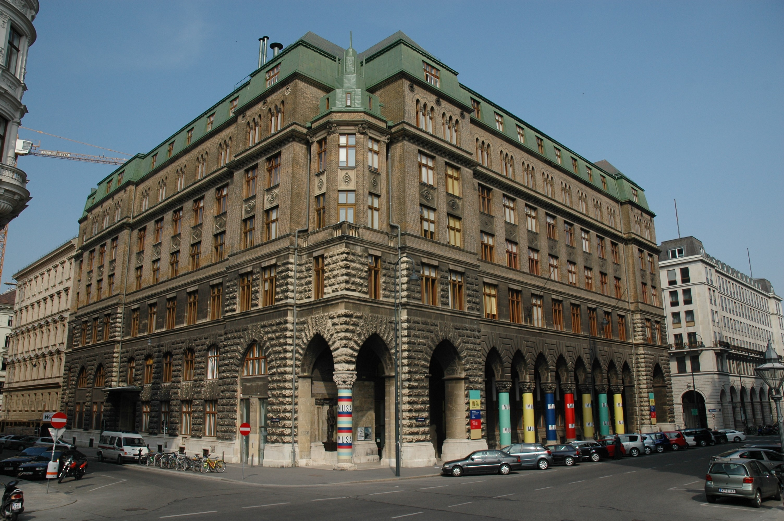 MUSA Museum on Demand, Vienna